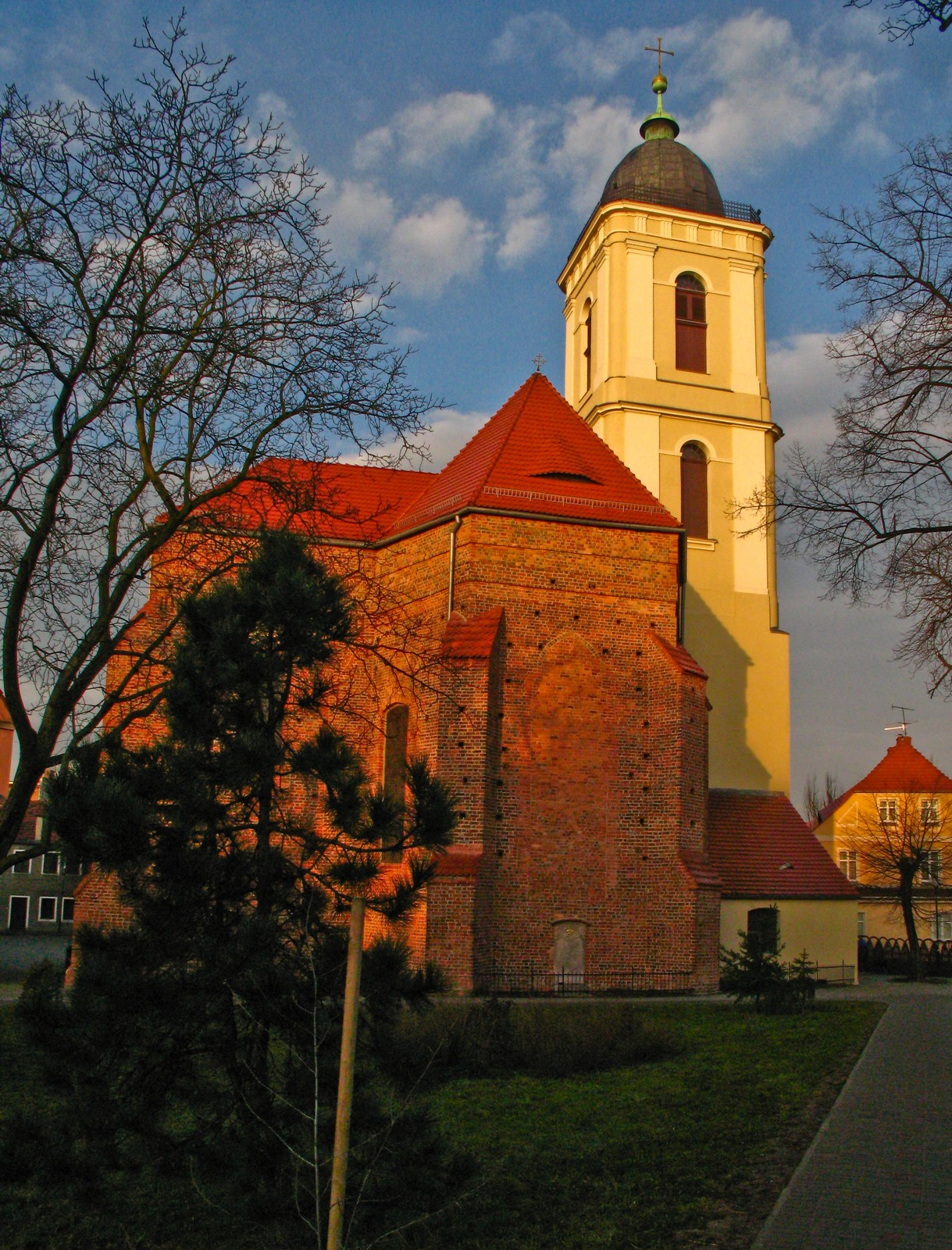 Saint Jadwiga concathedral, view from Kopernika street